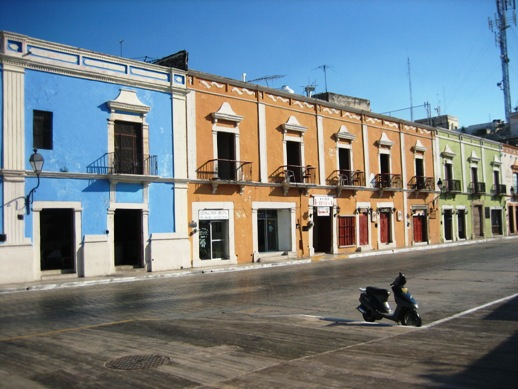 Street and houses in the UNESCO Historic Center of San Francisco de Campeche district, Campeche state, southeastern México.